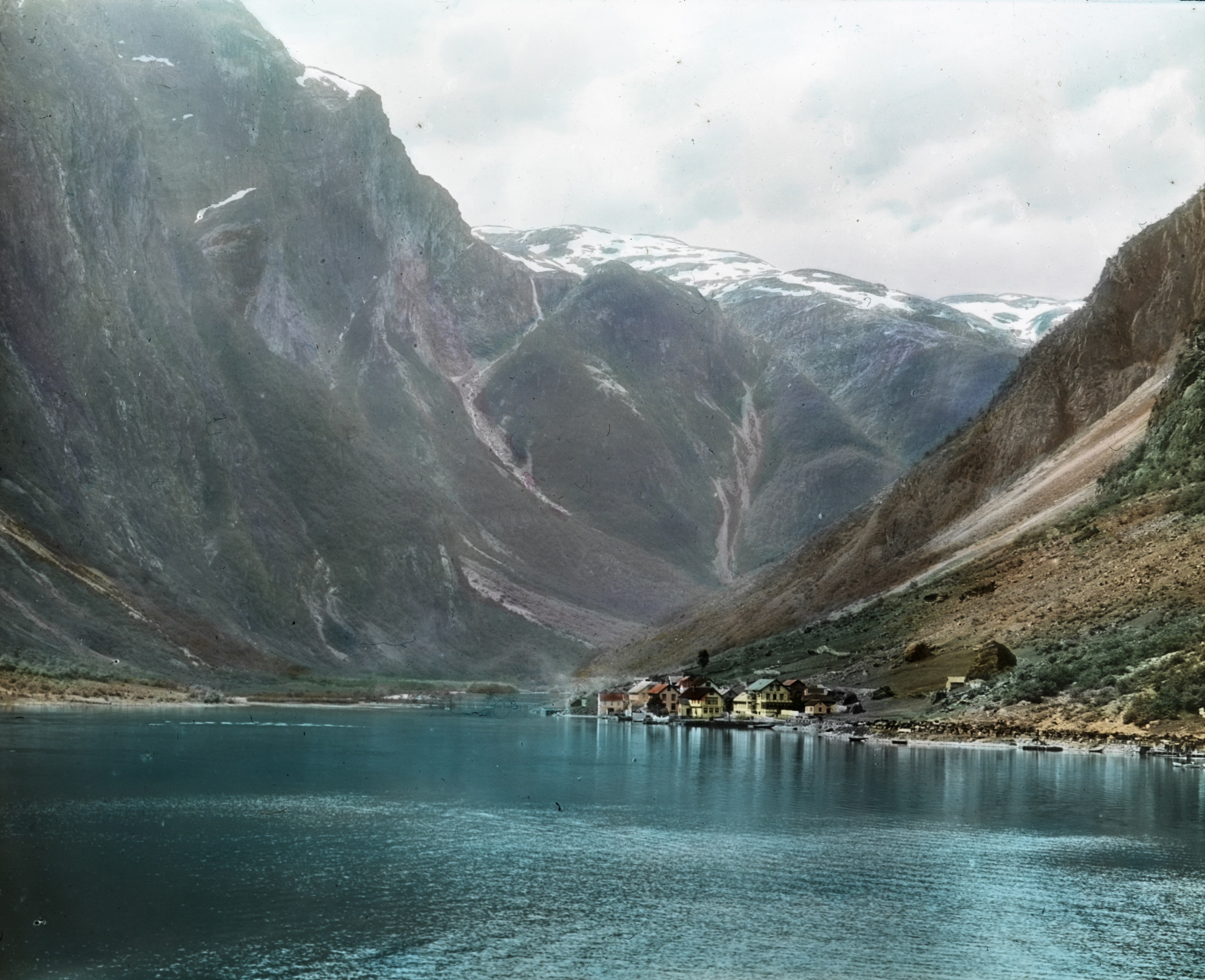 SFFf-1992078.0021 Original caption: "Gudvangen, Naerö Nereim fjord". The village of Gudvangen by the Nærøyfjord. Photographer: Samuel J. Beckett